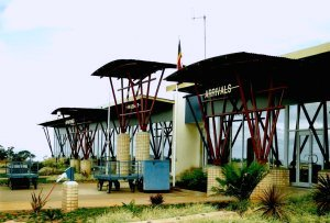 The terminal building of Matsapha Int. Airport, Eswatini